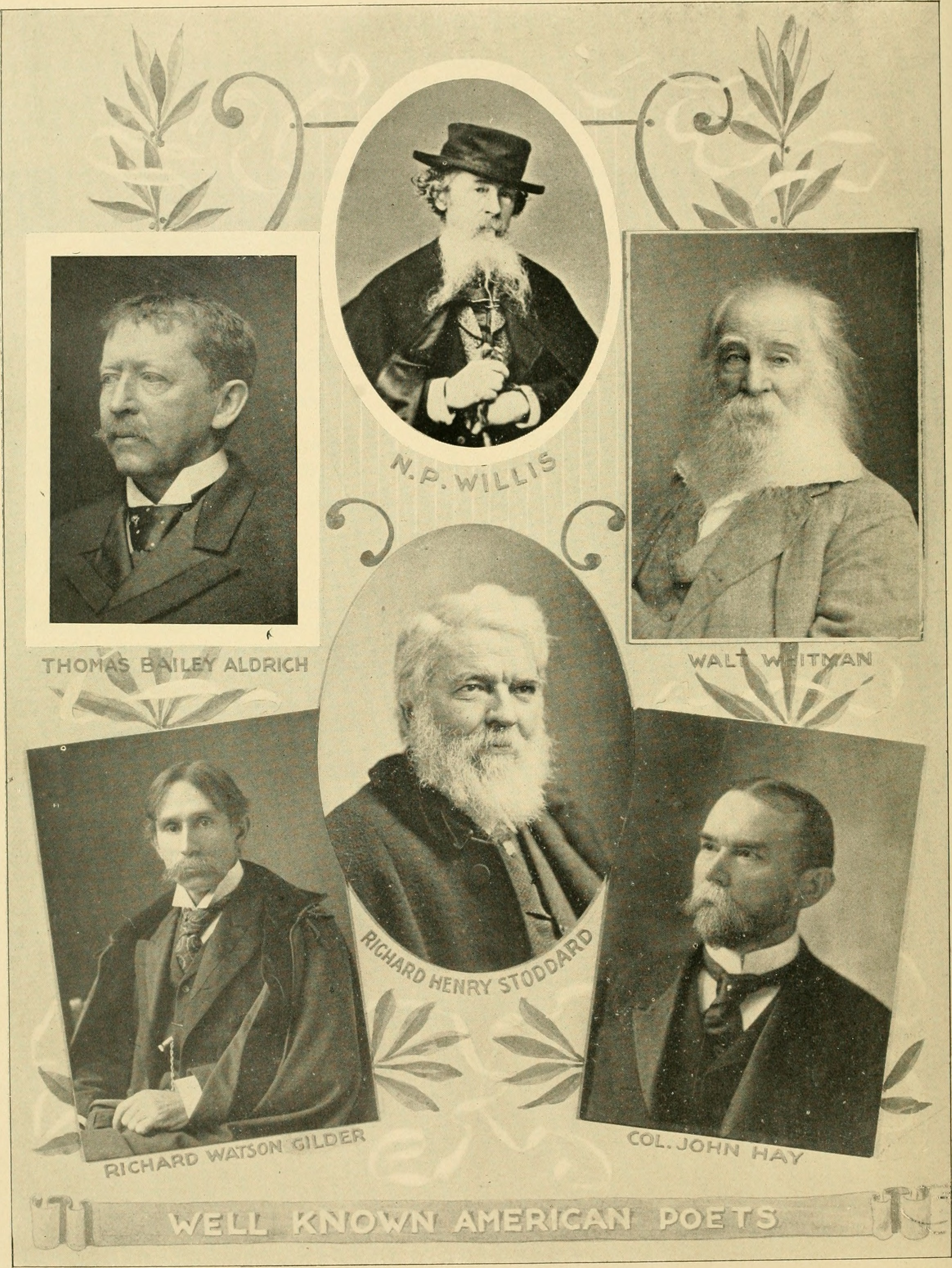 Title: Beautiful gems from American writers and the lives and portraits of our favorite authors Year: 1901 (1900s) Authors: Birdsall, William Wilfred, 1854-1909, (from old catalog) ed Jones, Rufus Matthew, 1863- (from old catalog) joint ed Subjects: American literature Publisher: Chicago, Ill., International publishing co Text Appearing Before Image: to make them climb To airy shelves of pasture green, That hang along the mountains side. Where grass and flowers together lean. And down through mists the sunbeams .slide. But naught can tempt the timid thingsThe steep and rugged path to try, Though sweet the shejdierds calls and singt..And seard below the pastures lie, Till in his arms his lambs he takes. Along the dizzy verge to go :Then, heedless of the rifts and breaks, They follow on oer rock and snow. And in these pastures, lifted fair.More dewy-soft than lowland mead, The shepherd drojis his tender care,And sheep and lambs together feed. This parable, by Nature breathed.Blew on me as the south wind free Oer frozen brooks that flow unsheathedFrom icy thraldom to the sea. A blissful vision through the nightWould all my happy senses sway Of the Good Shepherd on the height,Or climbing up the starry way. Holding our little lamb asleep. While, like the murmur of the sea, Sounded that voice along the deep,Saying, Arise and follow me. Text Appearing After Image: BAYARD TAYLOR.